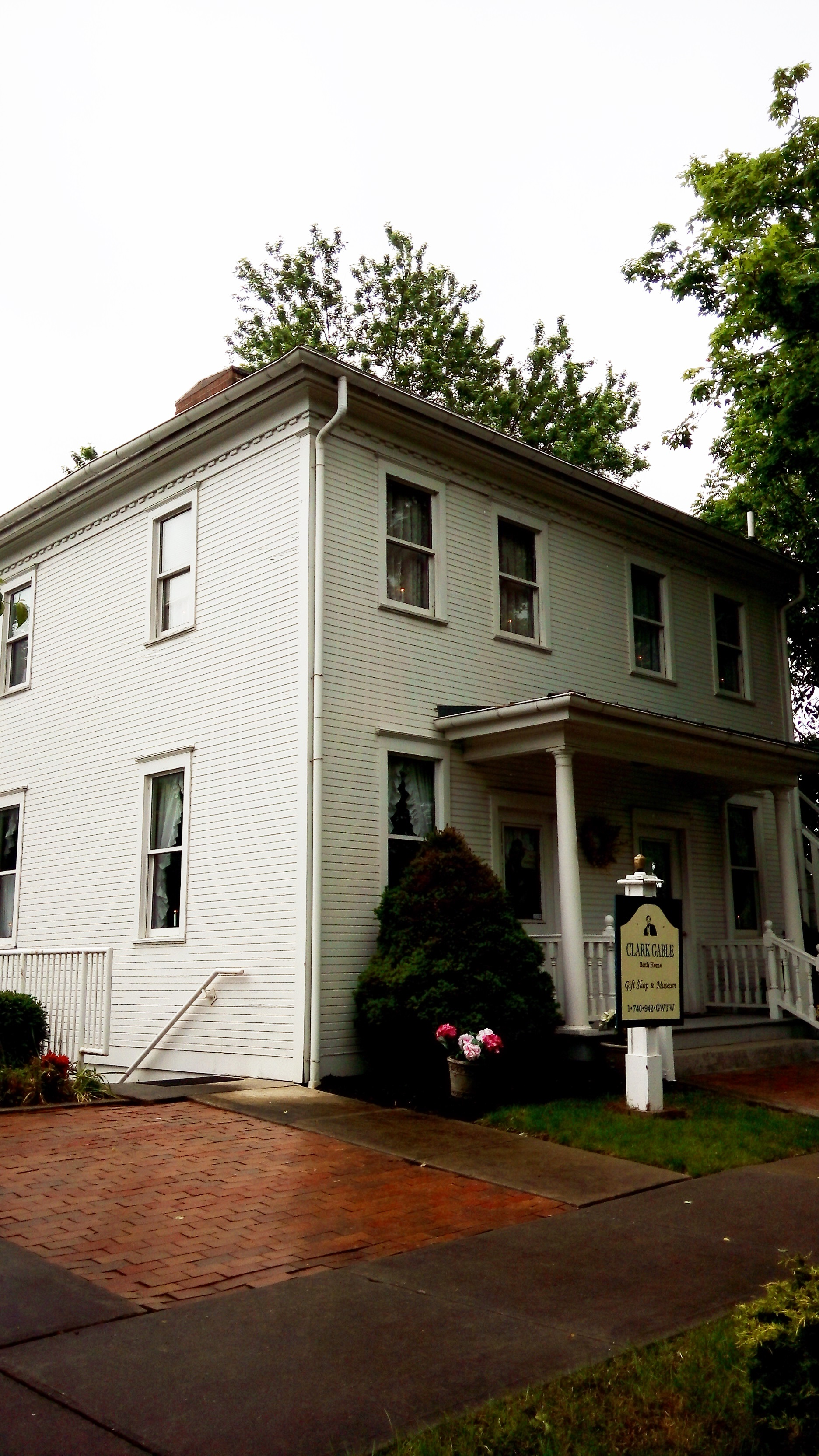 Birthplace of Clark Gable, photoed in Cadiz, Ohio in June of 2016